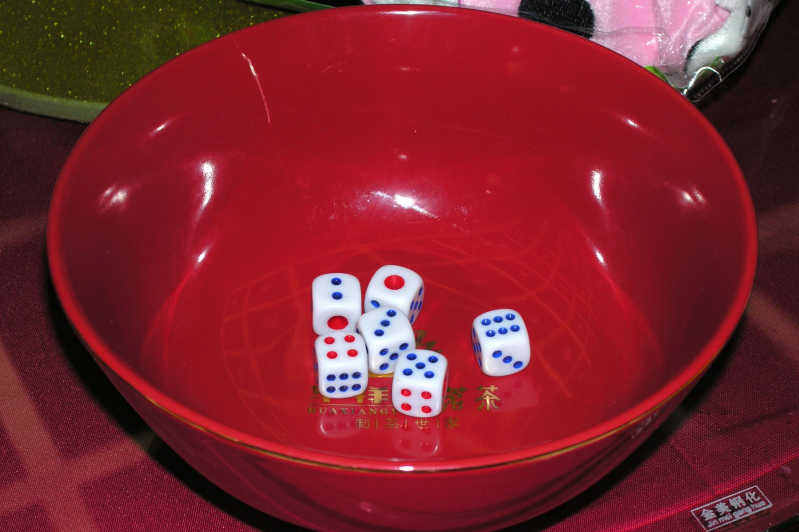 Showing a result of Bobing